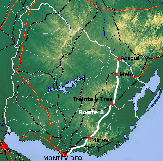 Map of Route 8, Uruguay